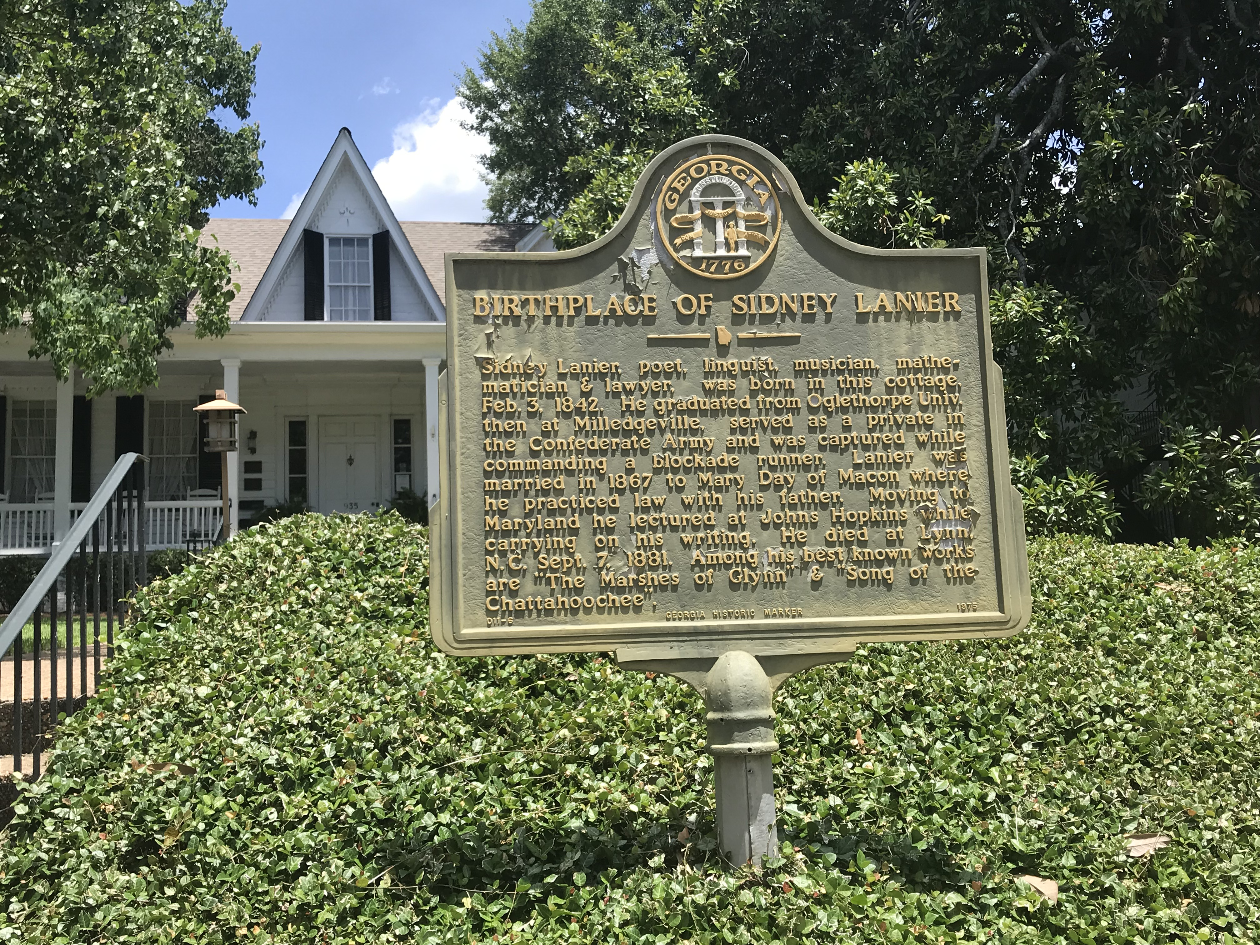 The Georgia History sign posted in the courtyard of Sidney Lanier Cottage.